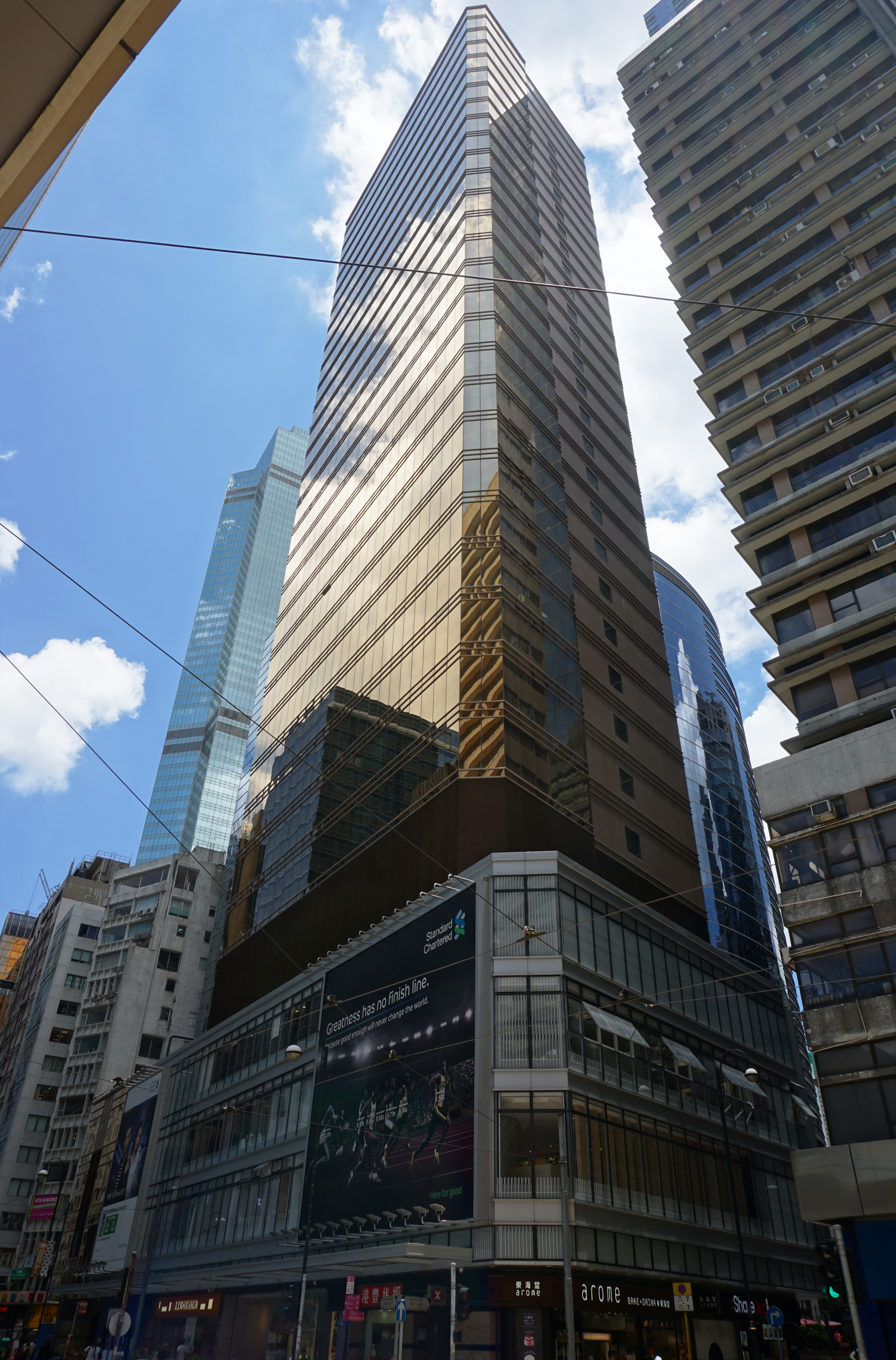 Golden Centre in Sheung Wan, Hong Kong.